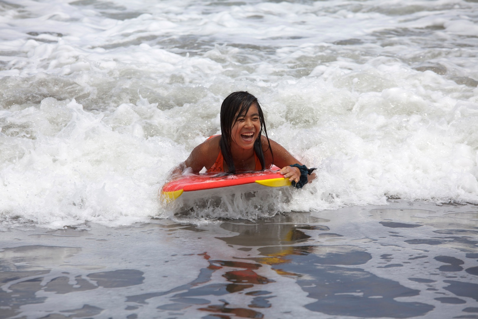 Bodyboarding; Kuta Beach, Bali